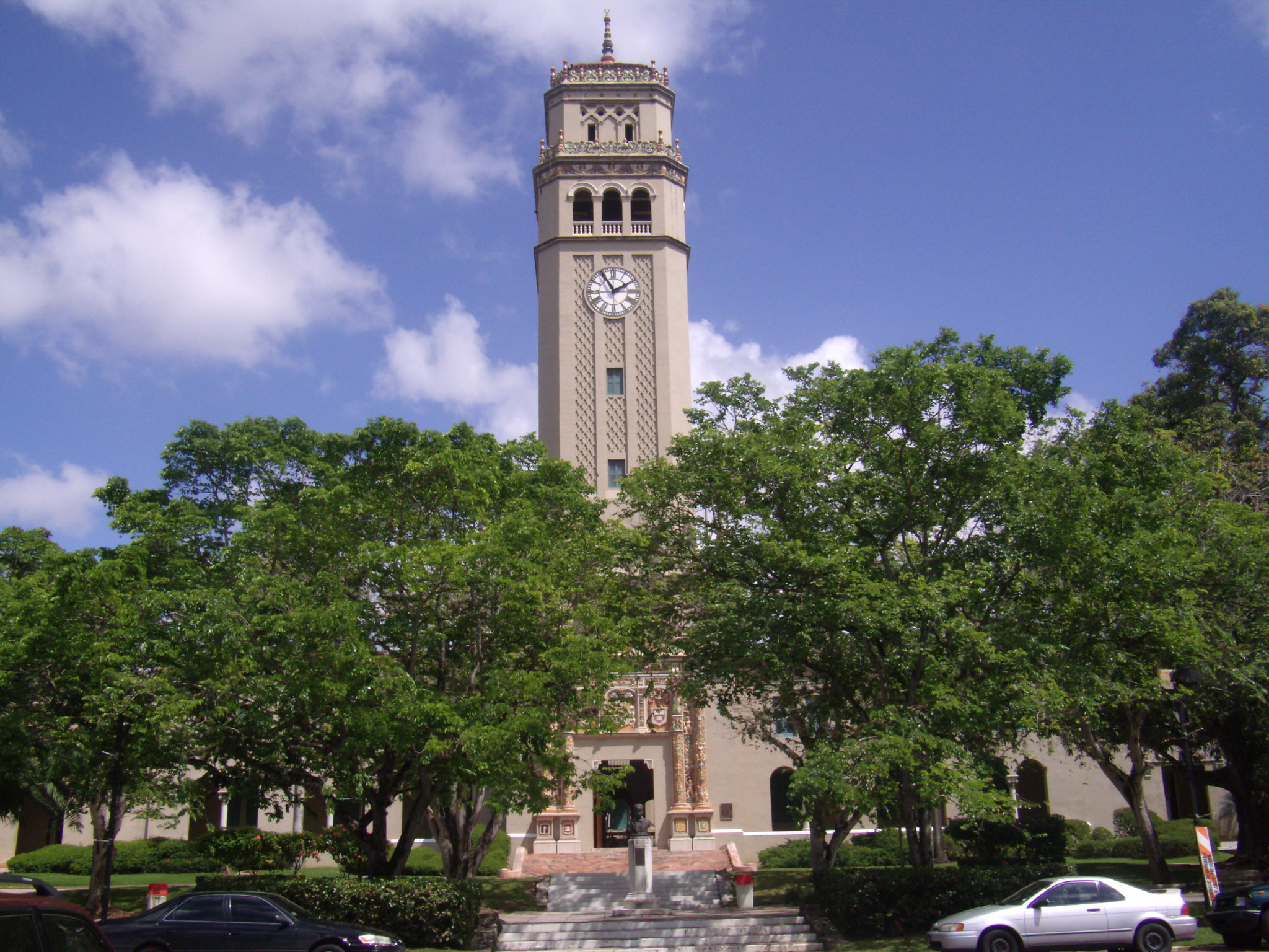 Picture depicting the Clock Tower at the University of Puerto Rico, Rio Piedras Campus.